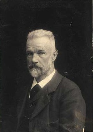 Vilhelm Bissen (1836-1913), Danish sculptor and son of Herman Wilhelm Bissen